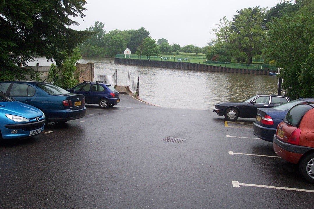 Draw dock on the Thames at Raven's Ait, in Surbiton, Surrey in the United Kingdom neighbouring Thames Sailing Club. The draw dock is nowadays a Pay and Display car park.